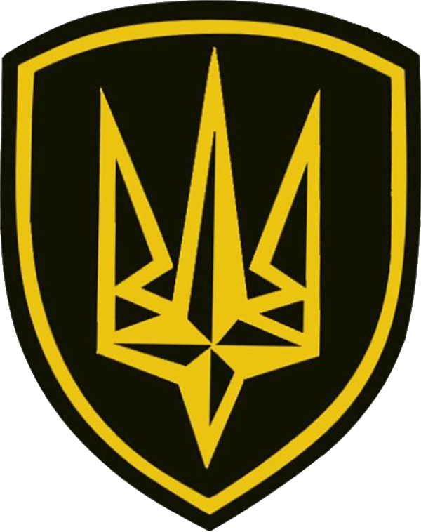 Shoulder sleeve insignia of the 4th Operational Purpose Brigade